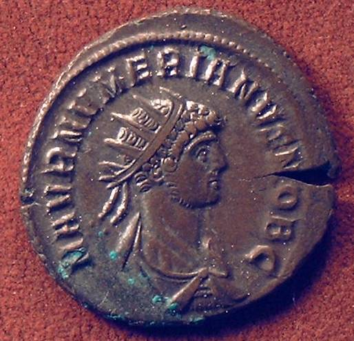 Antoninianus of Numerianus (son of Carus and brother of Carinus) as Cesar Numerianus